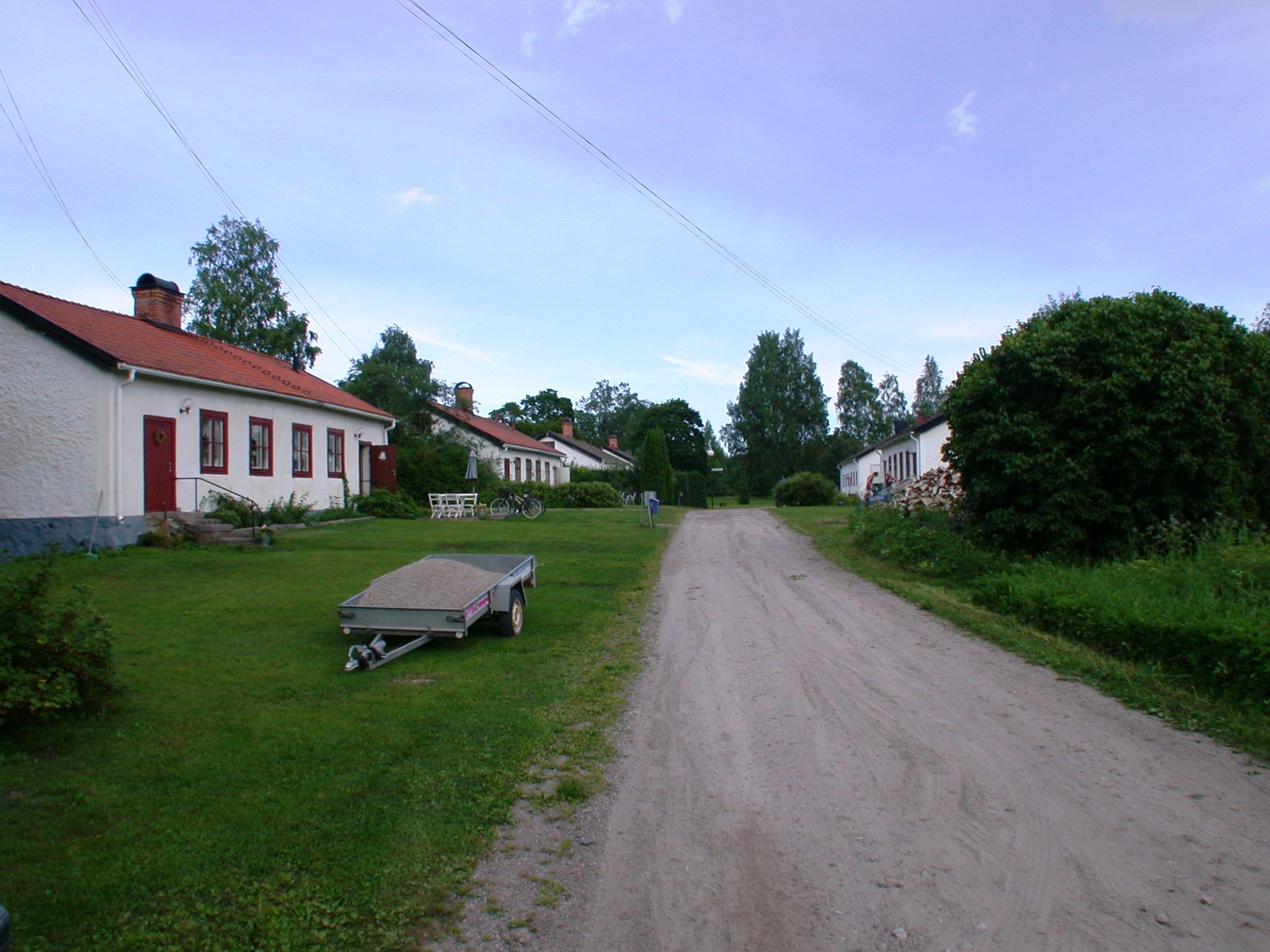 The village road, Mackmyra bruk and destillery